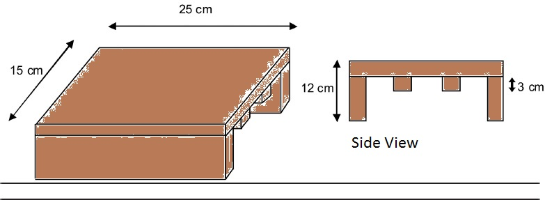 Artificial Cover Object